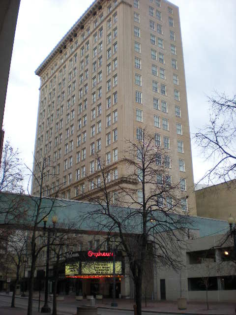 City National Bank Building Omaha, NE